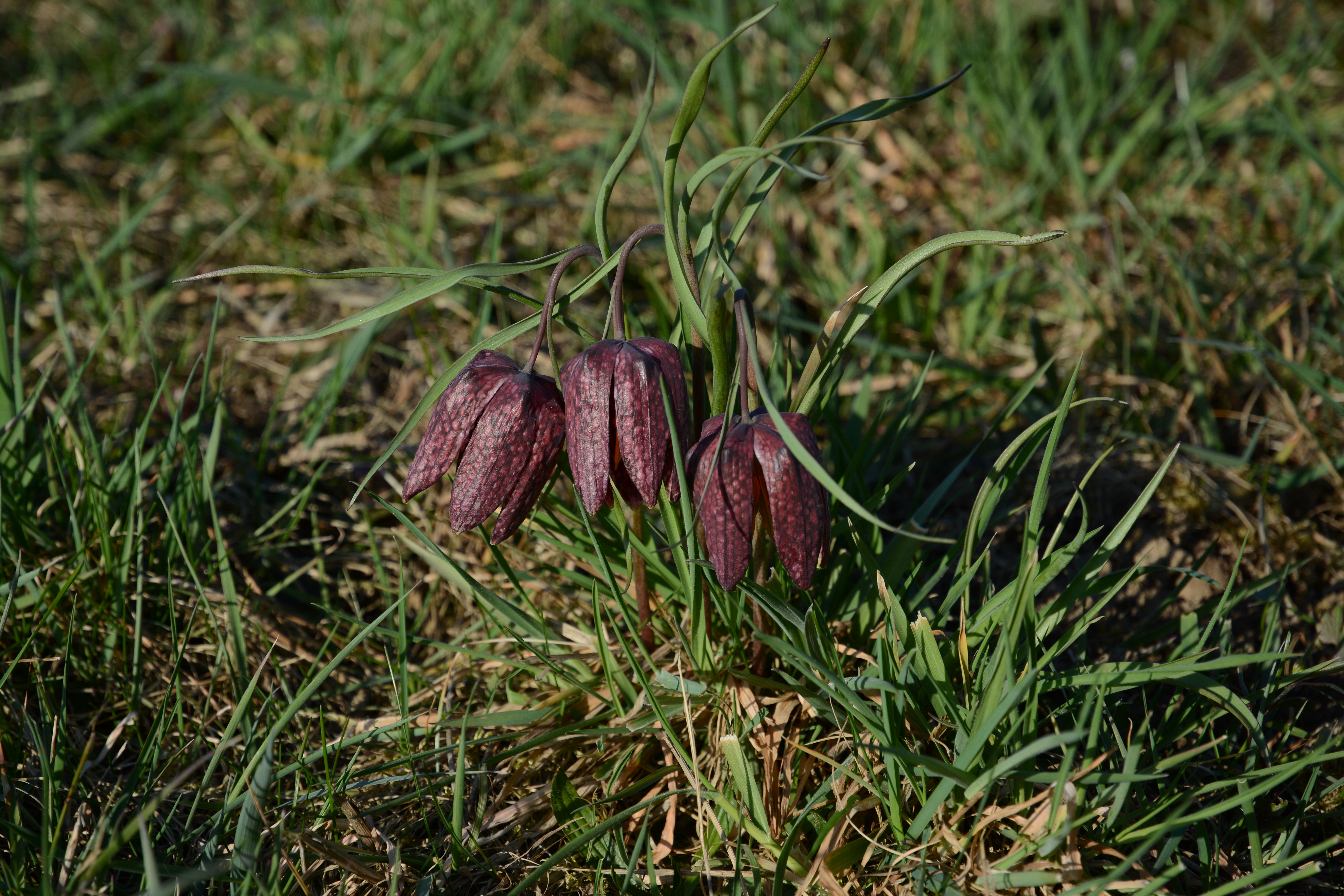 Fritillaria meleagris Hartberg-Fürstenfeld